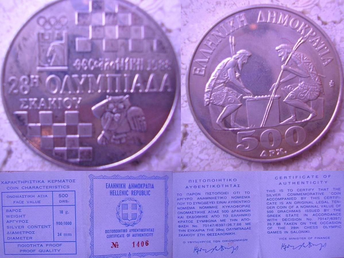 silver coin 500 drachmas, 28th Chess Olympiad 1988